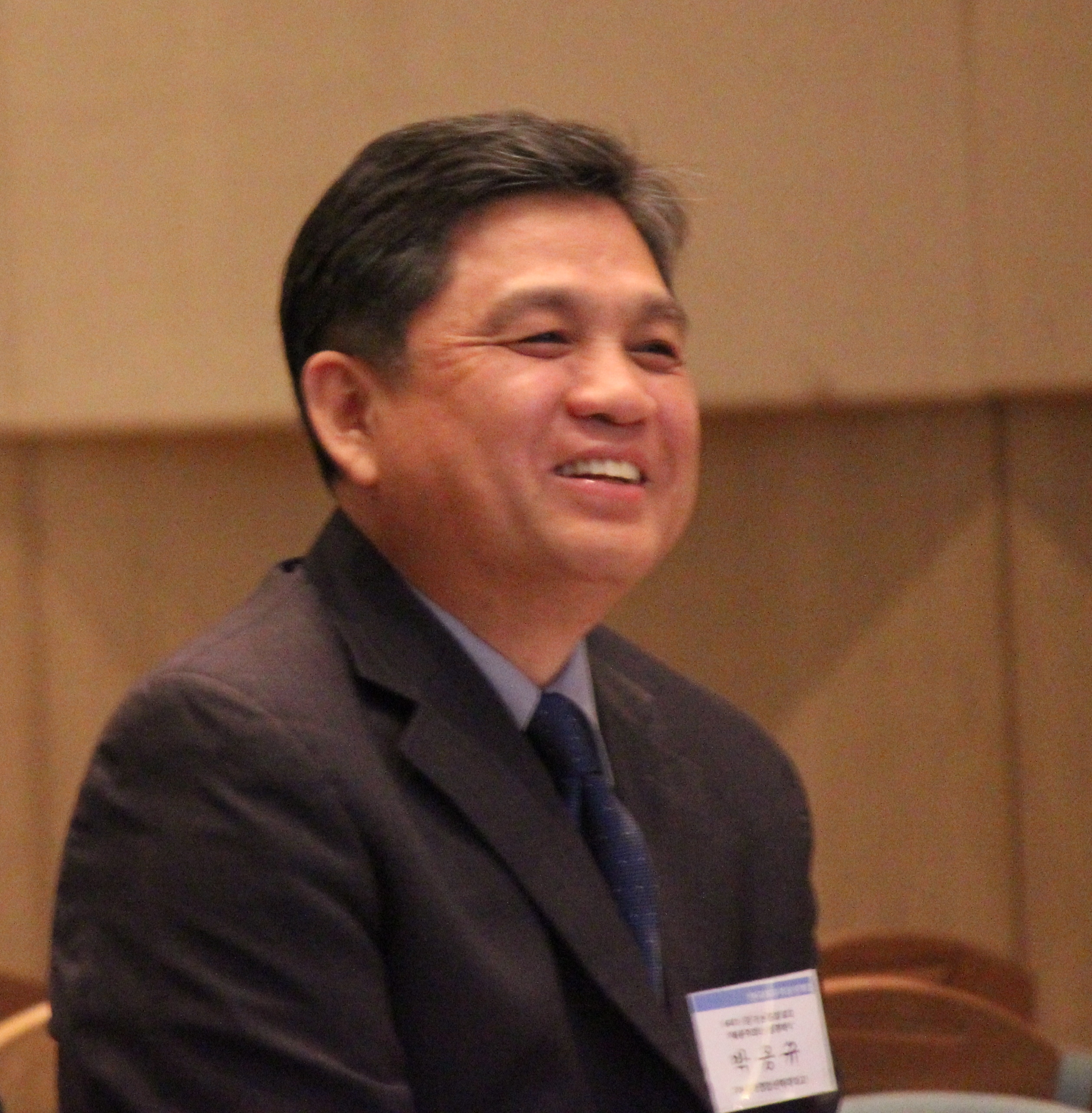 Prof. Ung-Kyu Pak, Asia United Theological University